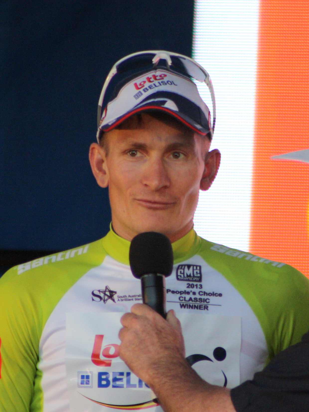 Andre in the Classic Jersey